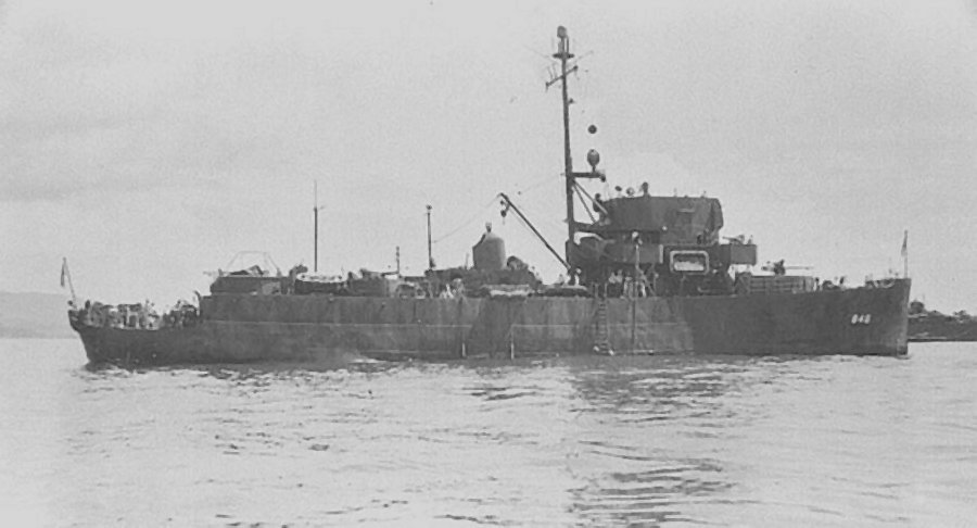 USS PCE(R)-848 in wartime camo, August 1944